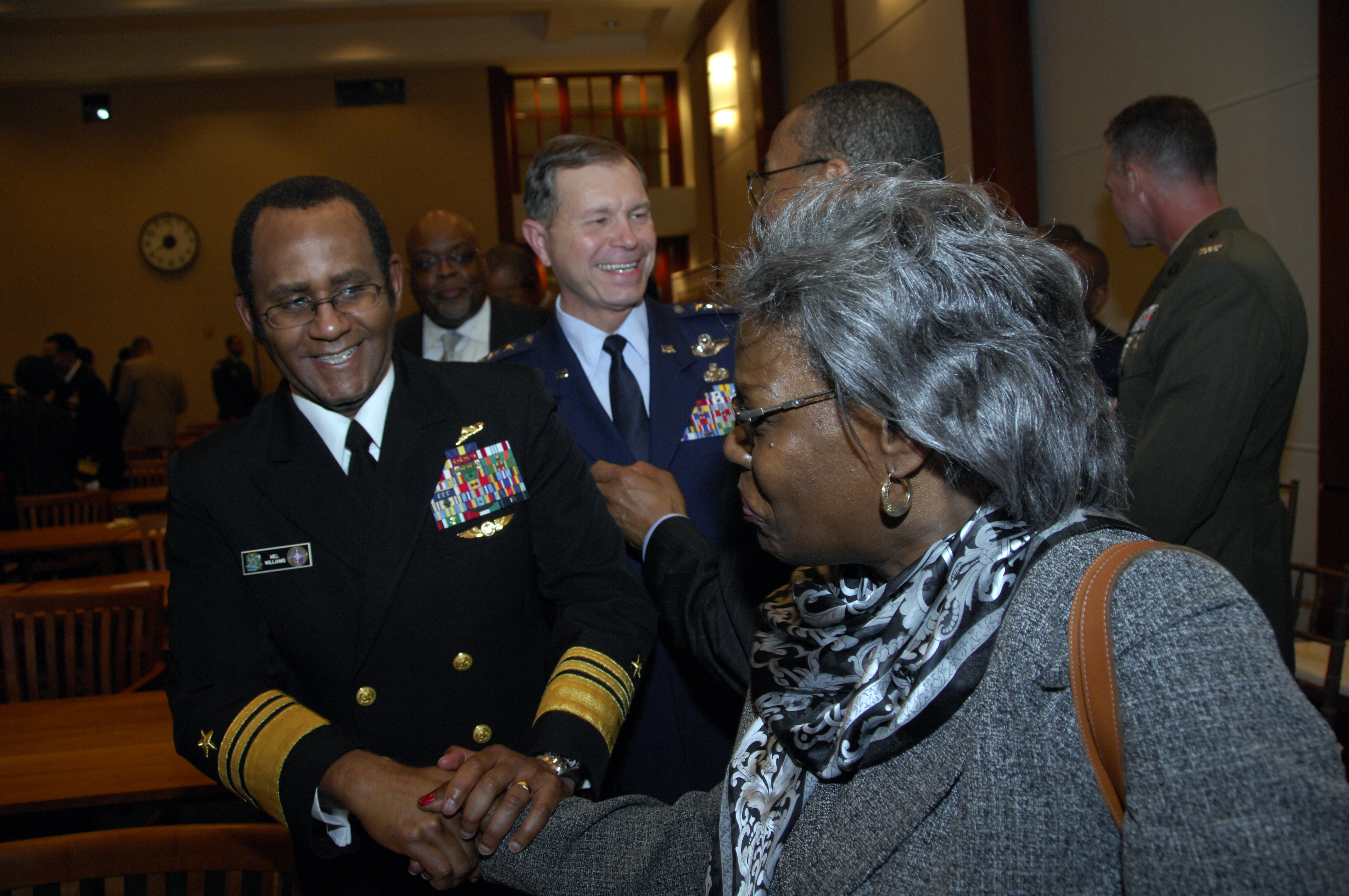 WASHINGTON (Feb. 12, 2009) Vice Adm. Mel Williams, commander, U.S. 2nd Fleet, shakes hands with Retired Rear Adm. Lillian Fishburne, the Navy's first female African American flag officer, after receiving an award honoring his military achievements during the Flag Officer Reception in recognition of the annual Thurgood Marshall Scholarship Fund. The Thurgood Marshall Scholarship Fund, created with the support of Justice Marshall in 1993, provides assistance in the form of merit-based scholarships to students attending historically Black public colleges or universities. (U.S. Marine Corps photo by Lance Cpl. Andres Lugo/Released)